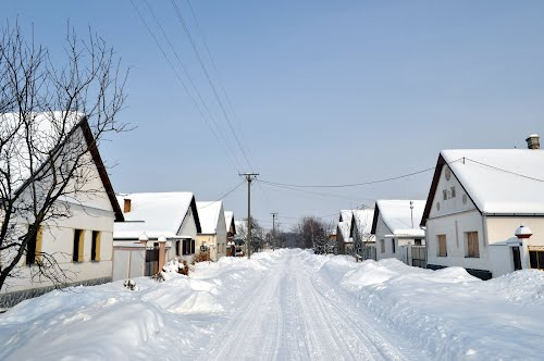 Backi Brestovac